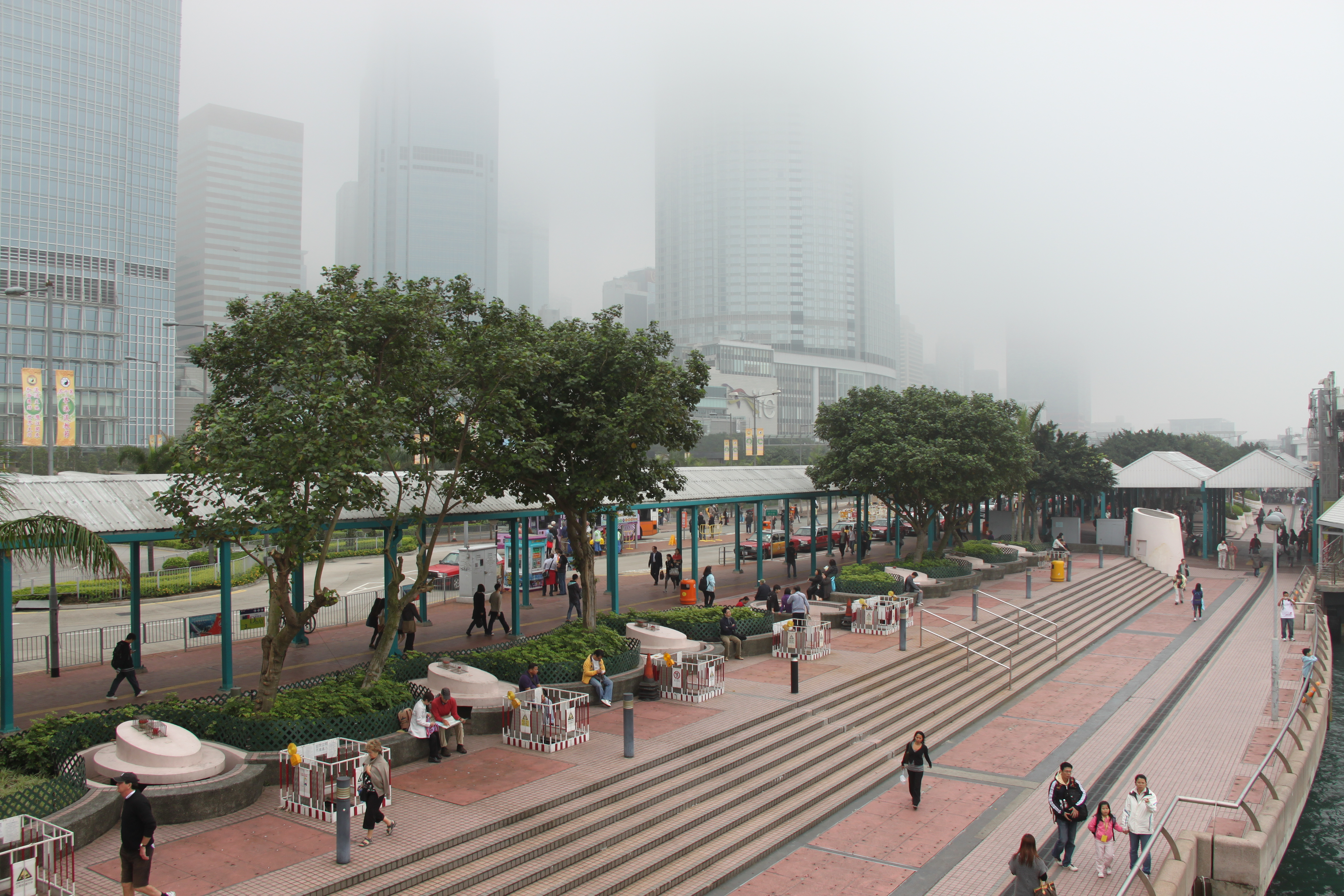 Central Piers Promenade in Hong Kong